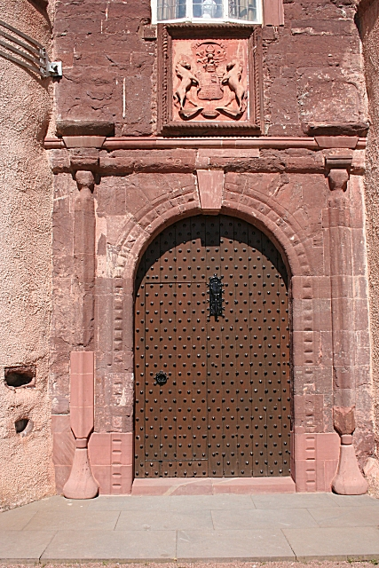 Fyvie Castle Doorway This is the door in the south elevation of the castle, surmounted by a heraldic panel.